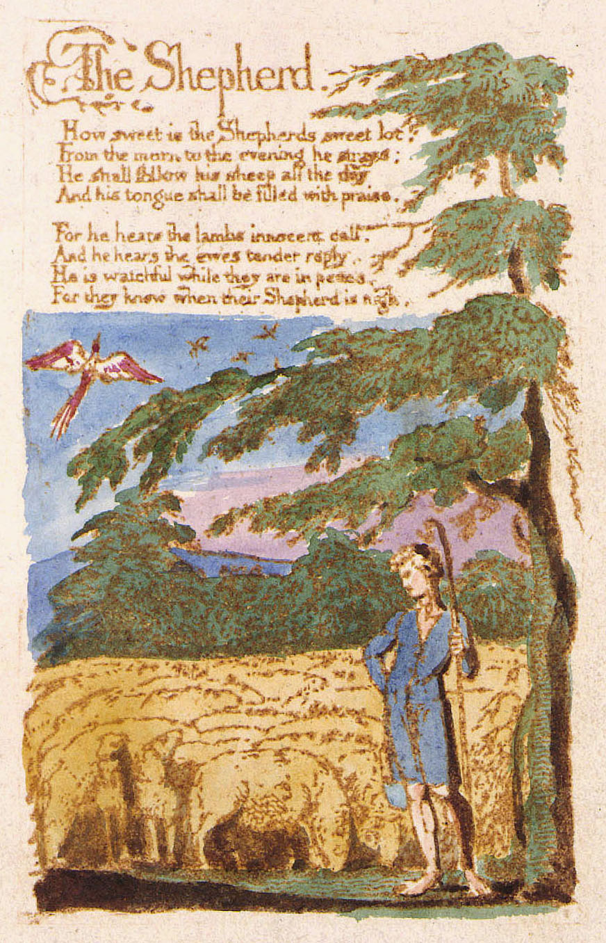 Songs of Innocence, copy B, object 4 (Bentley 5, Erdman 5, Keynes 5) "The Shepherd"